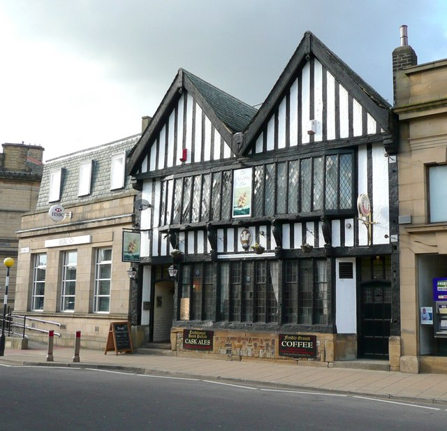 The Old Ship, Bethel Street, Brighouse. Built from the timbers of HMS Donegal (1858).